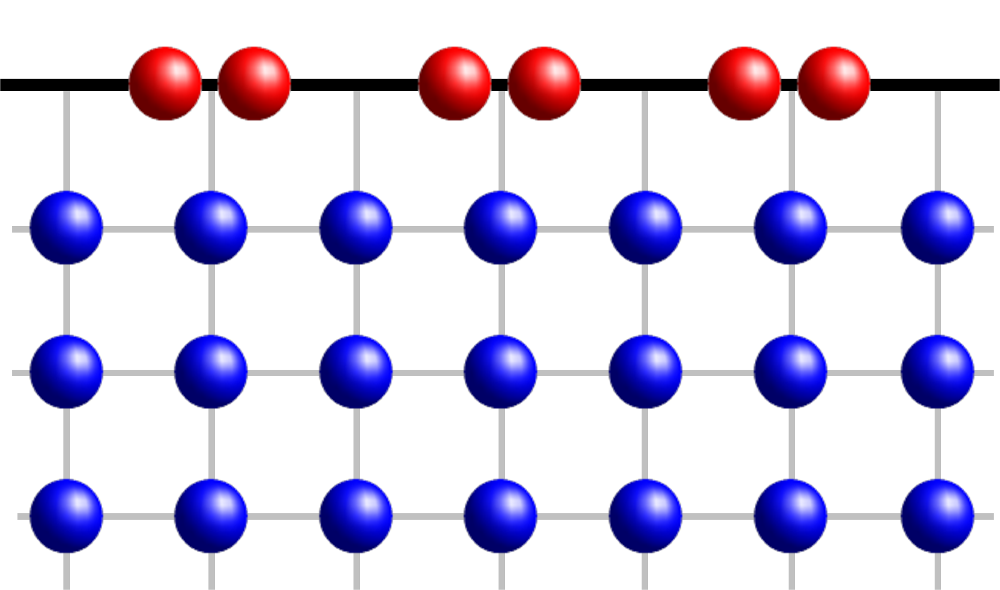 Surface reconstruction of the atoms in a solid. The position and symmetry of the surface layers of atoms (red) is changed relative to the bulk positions (blue) (schematic drawing; geometry inspired by the reconstructed Si(100)-(2x1) surface).